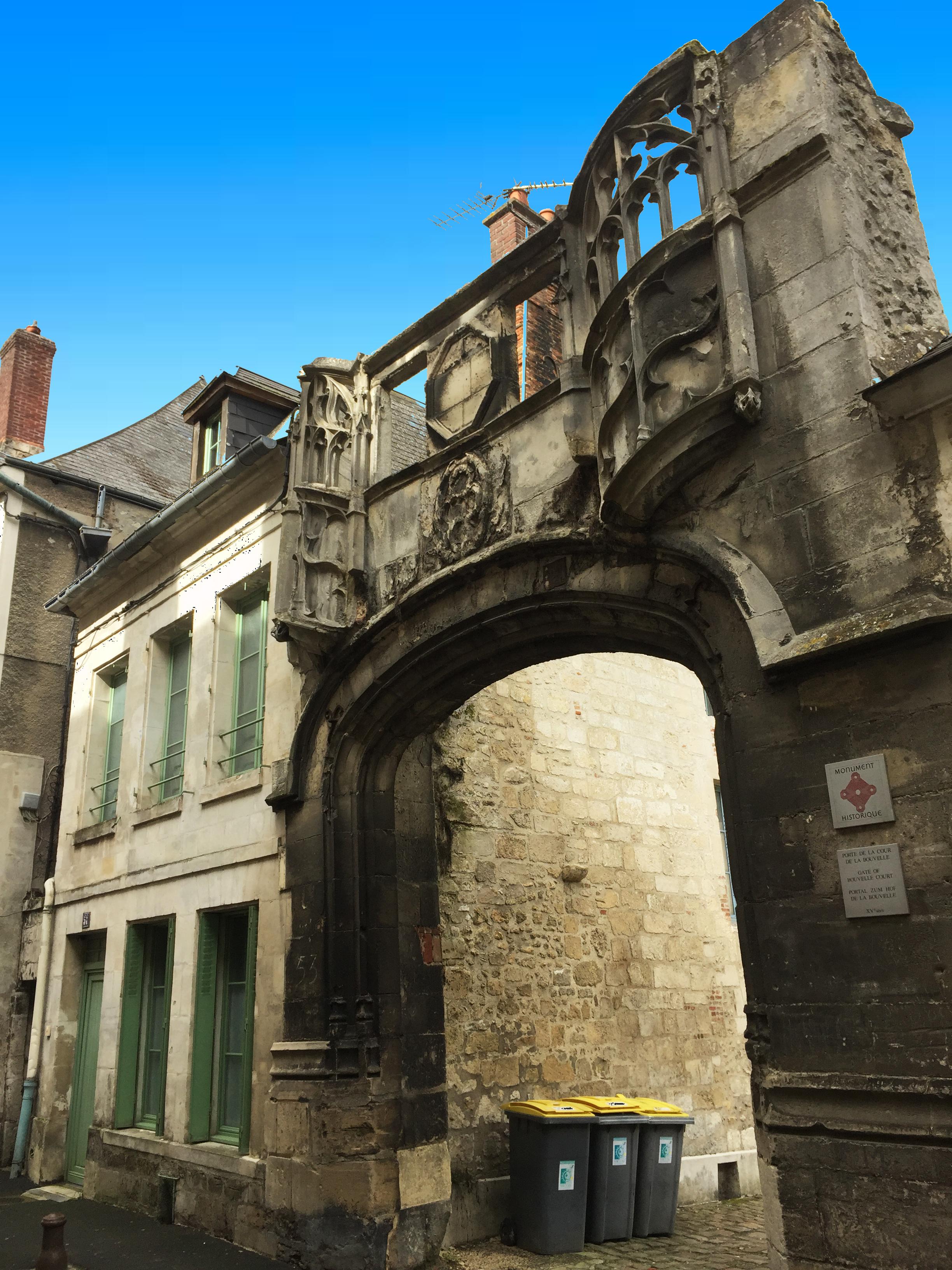 Gate of Bouvelle Court in Laon, France, Rue Serurier. Photo taken in 2019 (Porte de la Cour de la Bouvelle)